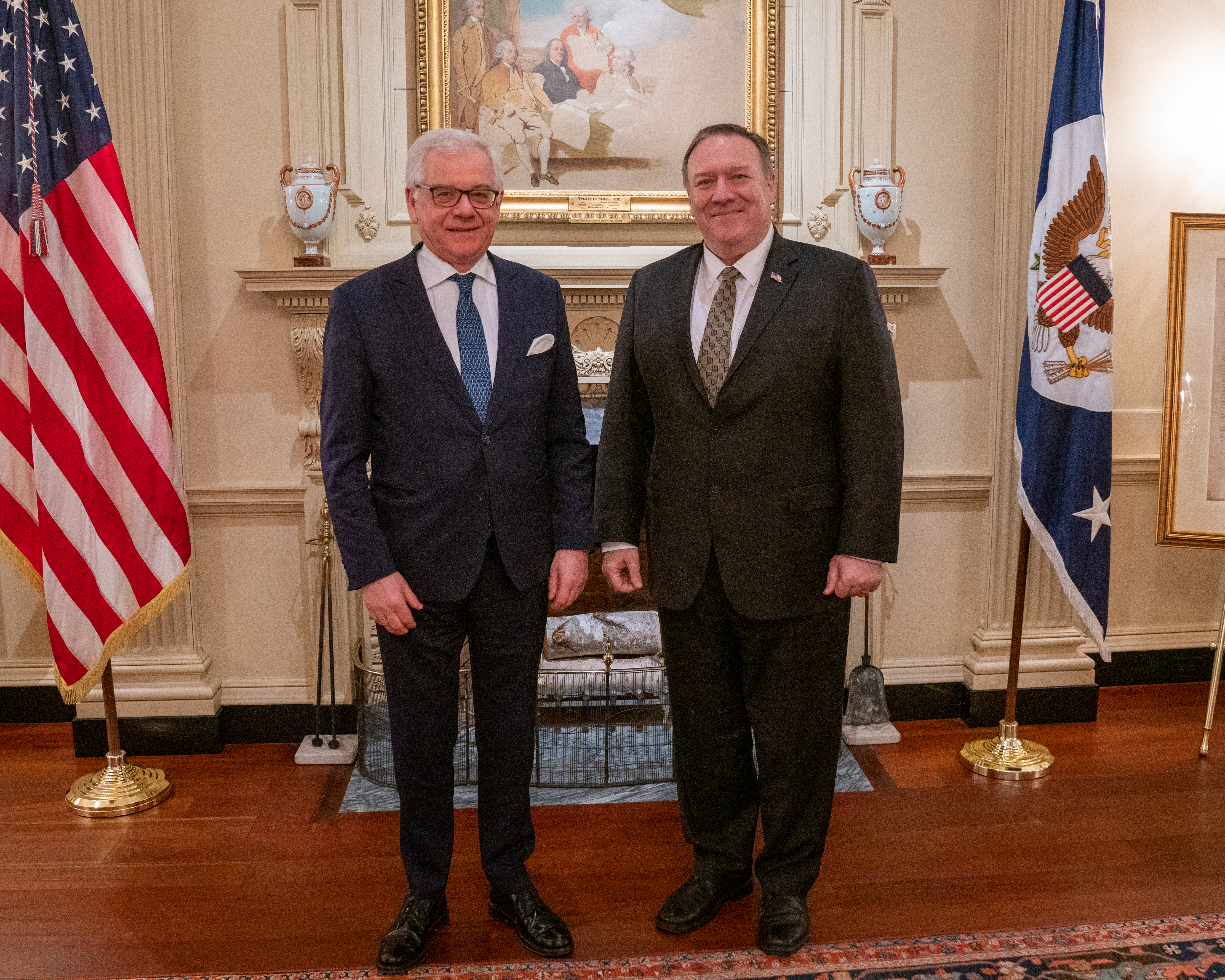 Secretary of State Michael R. Pompeo meets with Polish Foreign Minister Jacek Czaputowicz, before the International Religious Freedom Alliance dinner at the Department of State in Washington, D.C., on February 5, 2020. [State Department Photo by Ron Przysucha/ Public Domain]